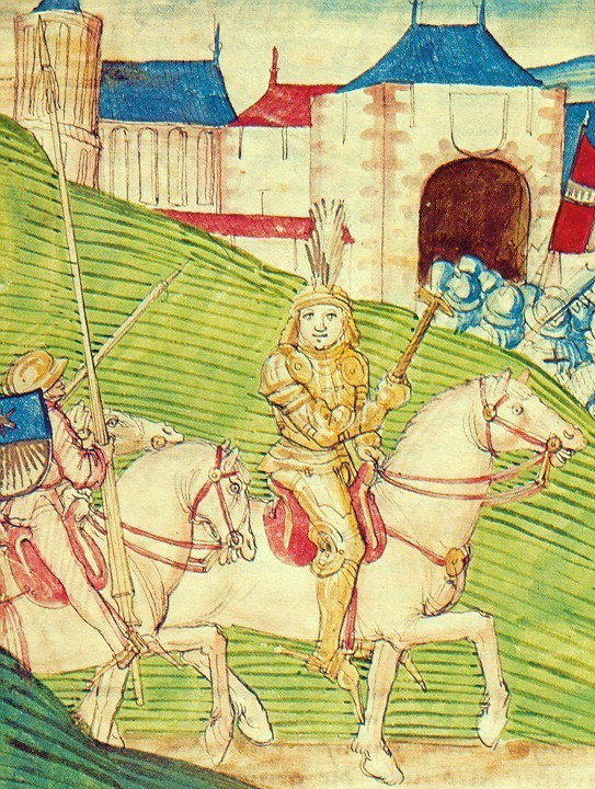 Great Burgundy chronicle, Adrian von Bubenberg entered in Murten.